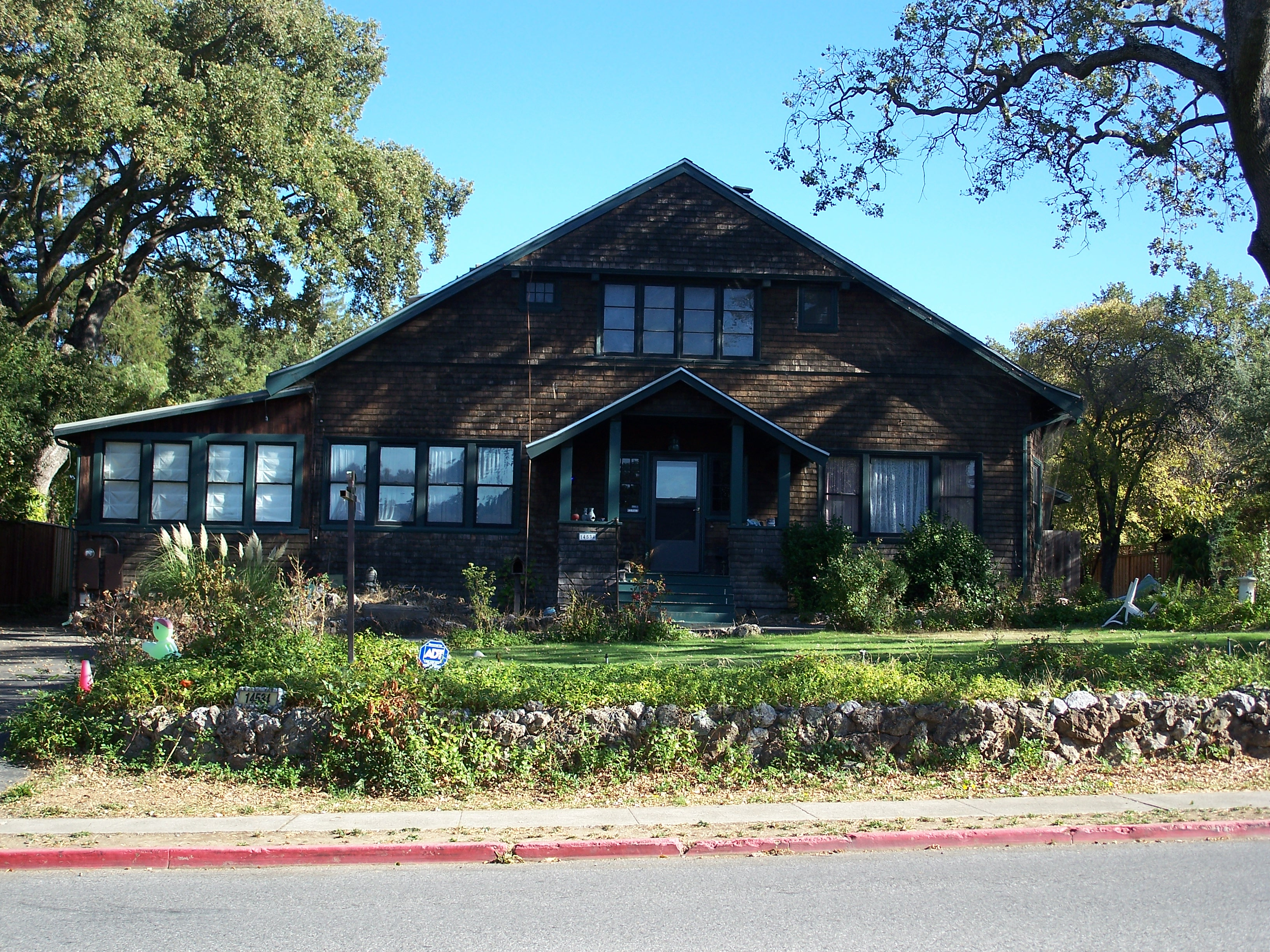 Lundblad's lodge. 14534 Oak Street. Saratoga, California, USA More details about subject